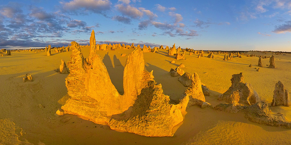 Partial panorama of the Pinnacles in the Pinnacles Desert taken by myself (Neil Creek). Capture date: 26th August 2005.